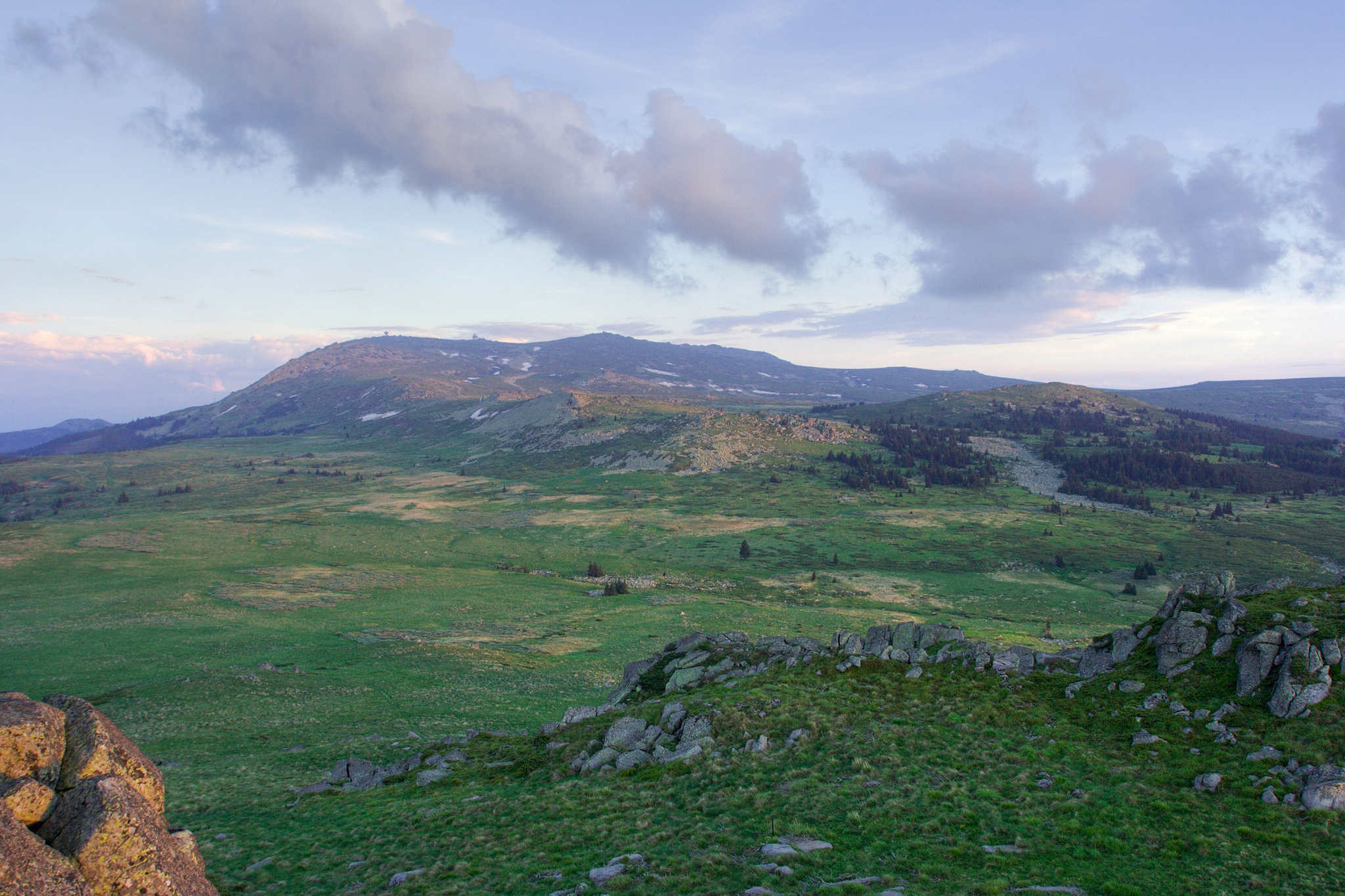 Platoto, Reznjovete & Cherni Vrah peak, Vitosha mountain, Bulgaria